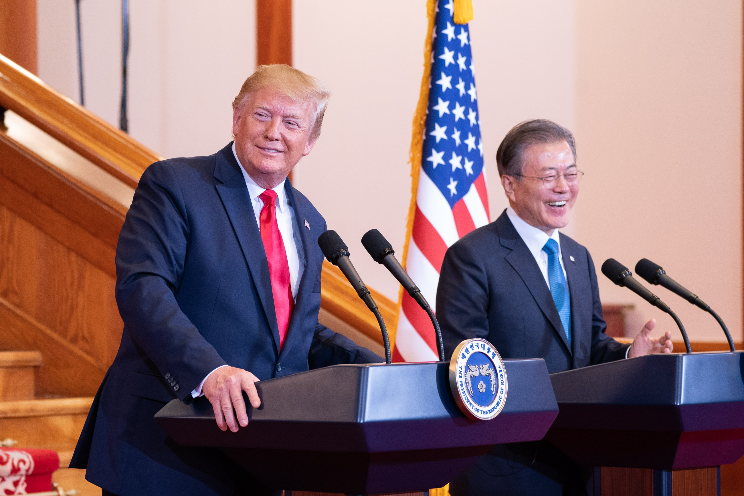 President Donald J. Trump and Republic of South Korea President Moon Jae-in participate in a joint press conference at Blue House Sunday, June 30, 2019 in Seoul. (Official White House Photo by Shealah Craighead)